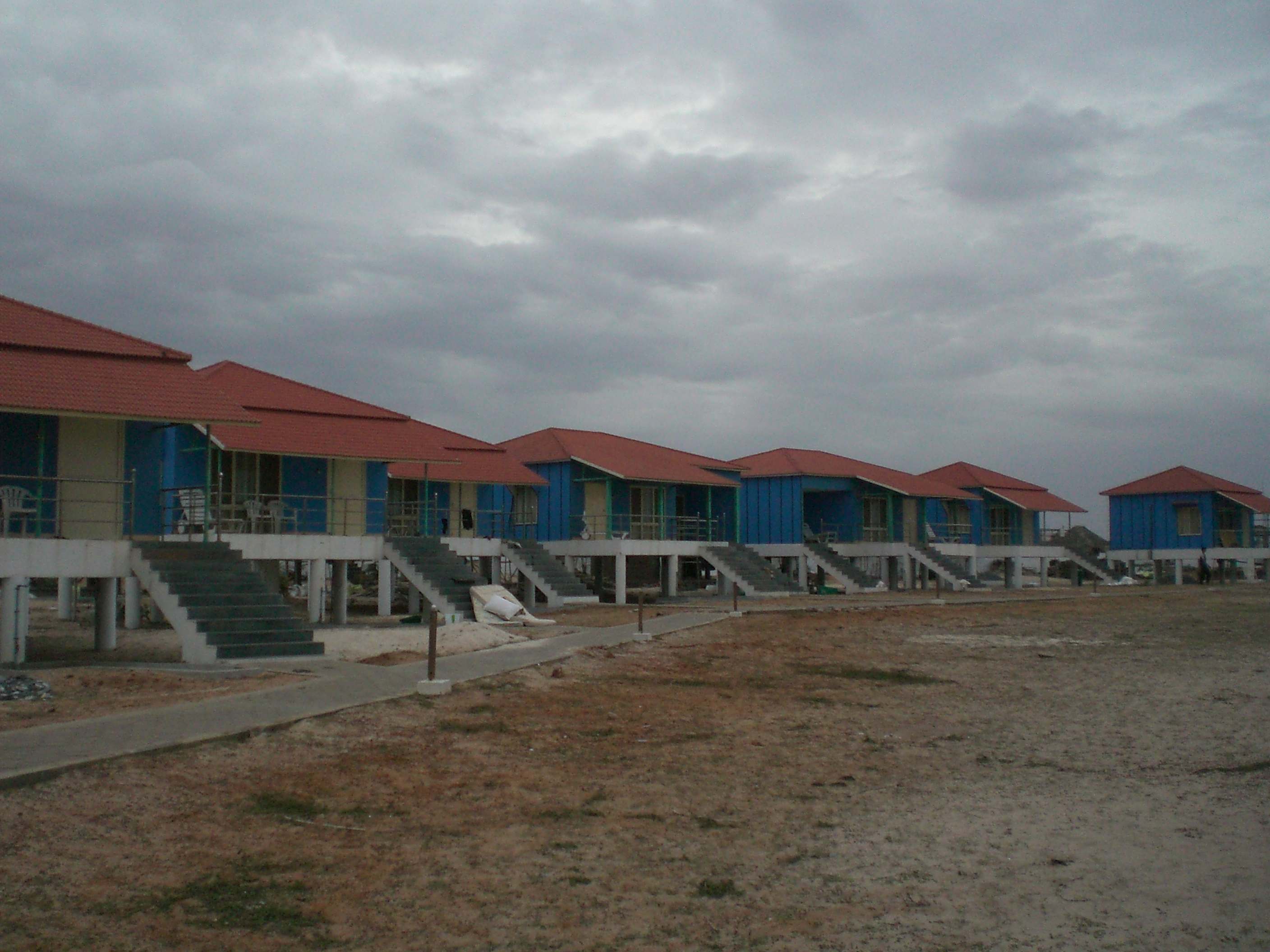 APTDC cottages at Suryalanka Beach.